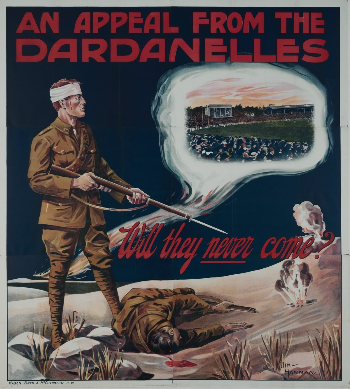 Australian World War I recruitment poster, offset lithograph on paper, 225 x 200 cm.